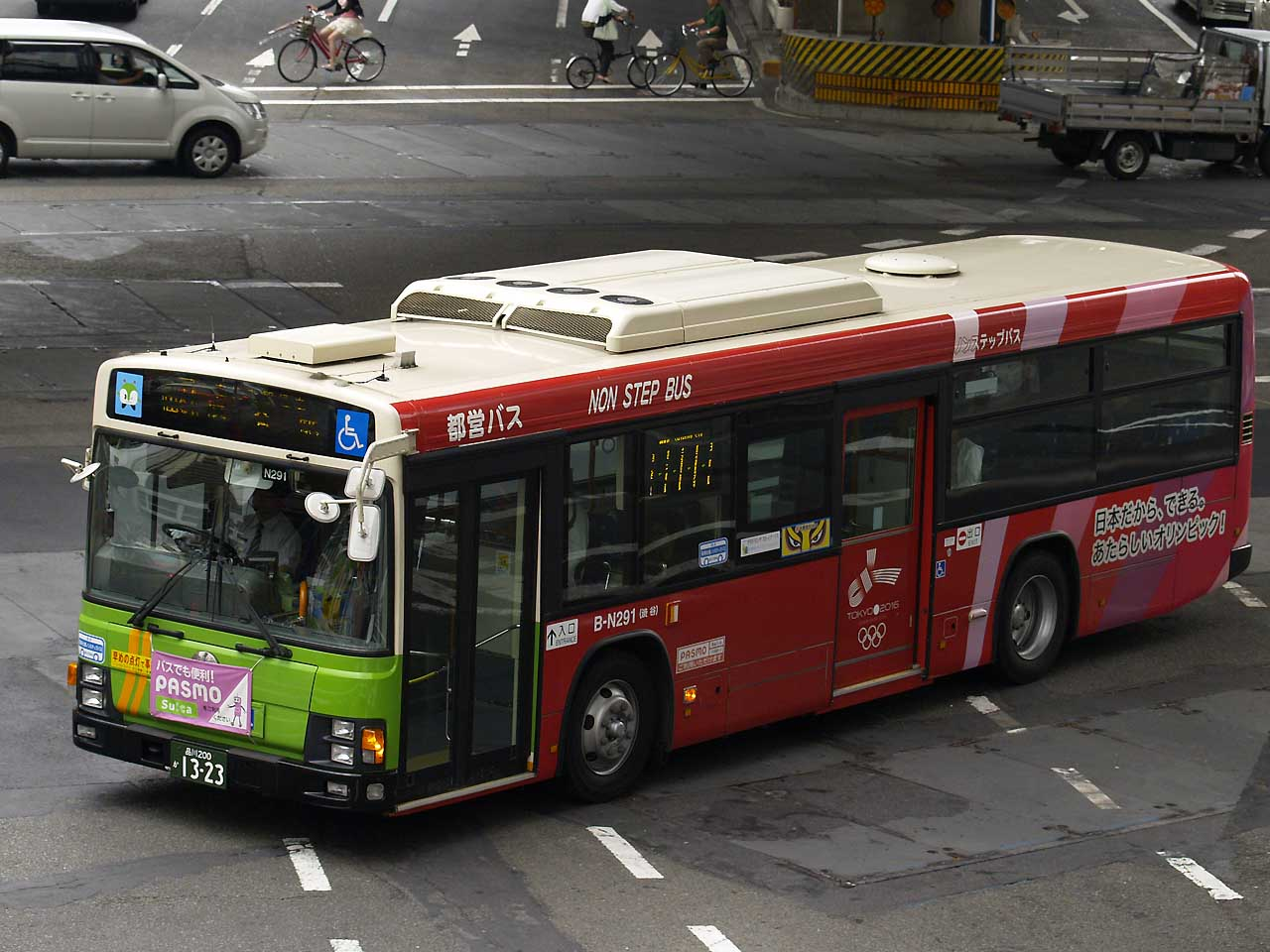 Fleet of Toei Bus, wrapped Tokyo 2016 Olympic bid advertising. Model: Hino Blue Ribbon II PJ-KV234L1 License plate: TKS200 KA1323 Place: neighbour of Shibuya Station, Shibuya Ward, Tokyo Japan